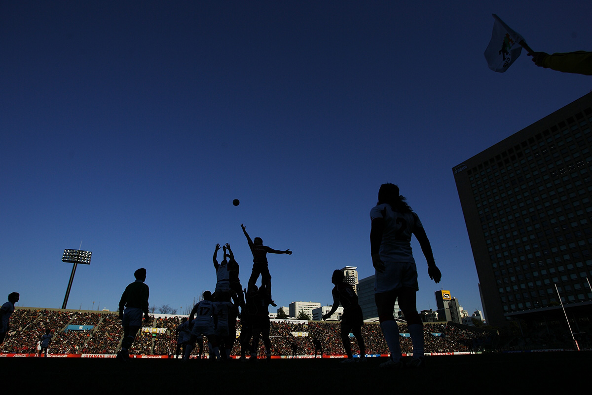 FEBRUARY 8, 2009 - Rugby : Japan Rugby Top League 2008-2009 Play off Tournament Microsoft Cup Final between TOSHIBA Brave Lupus and SANYO Electric Wild Knights at Chichibunomiya Rugby Stadium on February in Tokyo, Japan. (Photo by Tsutomu Takasu)